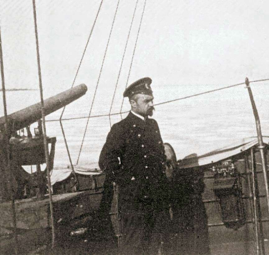 Alexei Michailowitsch Schtschastny